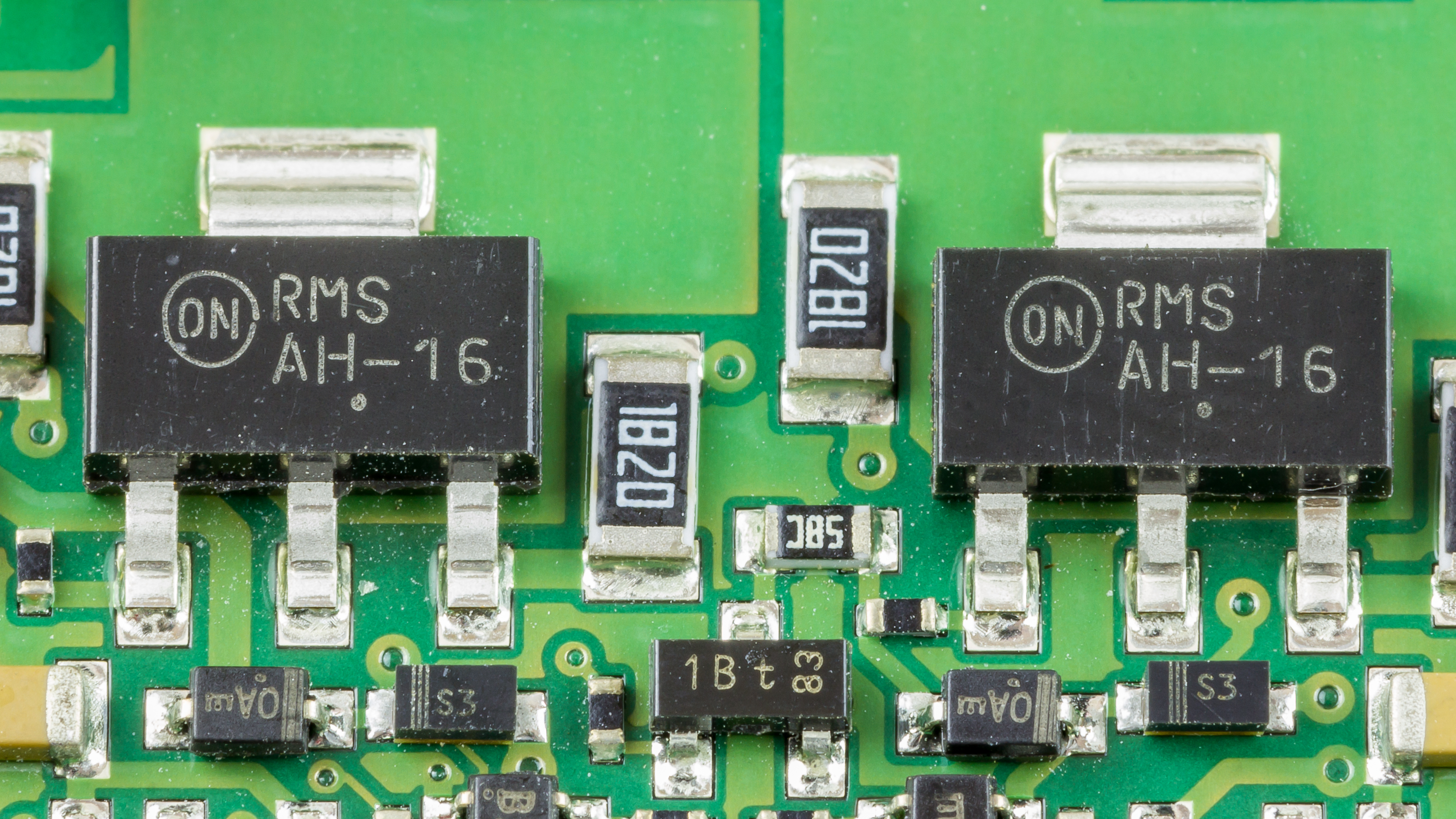 Fritz!Box Fon WLAN 7270 - ON Semiconductor AH-16 - BCP53 Series: BCP53−16T1G PNP Silicon Epitaxial Transistors. Package: SOT-223